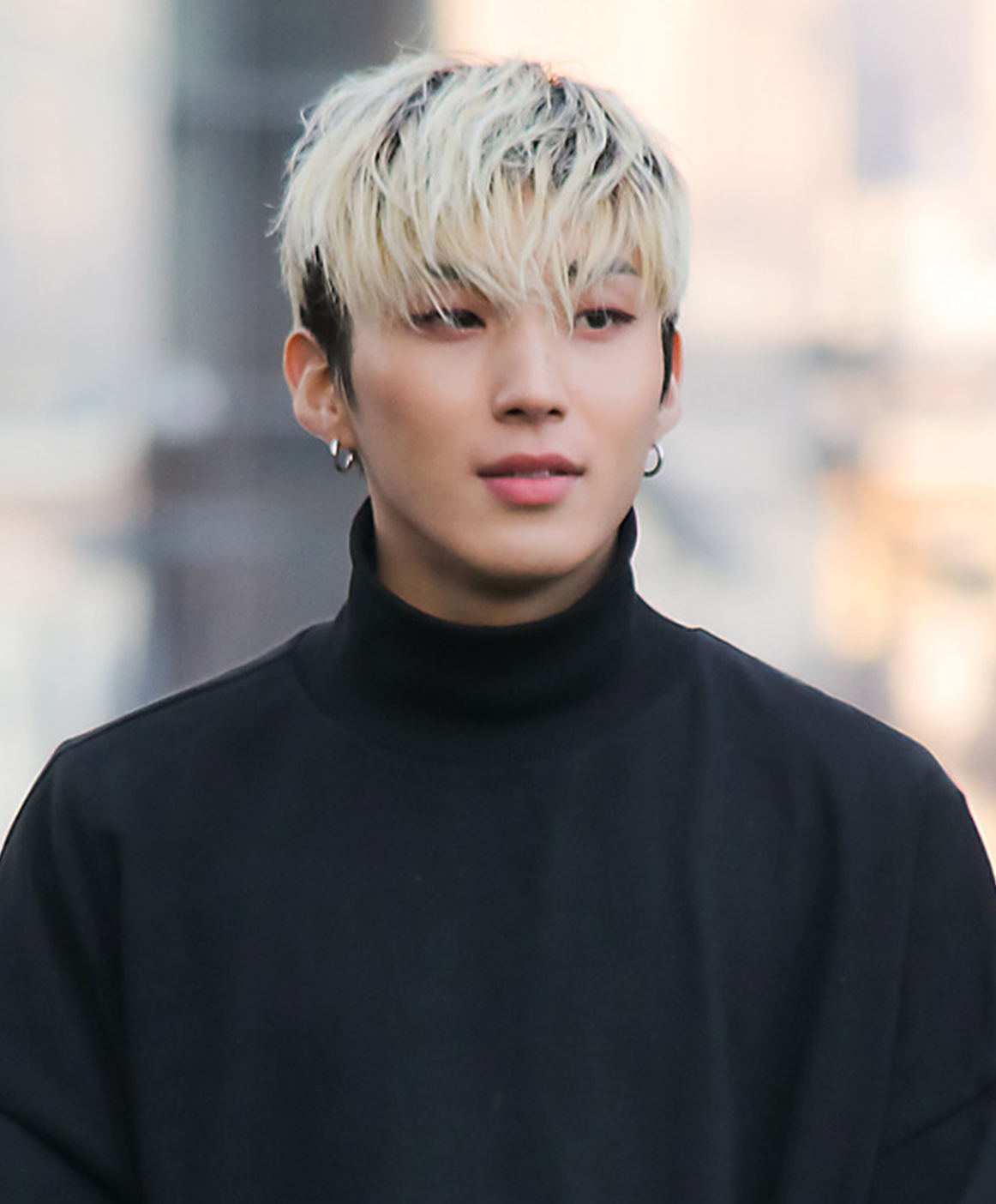 Moon Jong-up at a fan meeting on March 11, 2017.